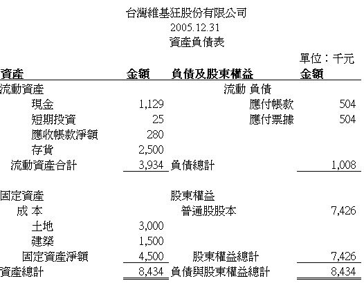 balance sheet in chinese